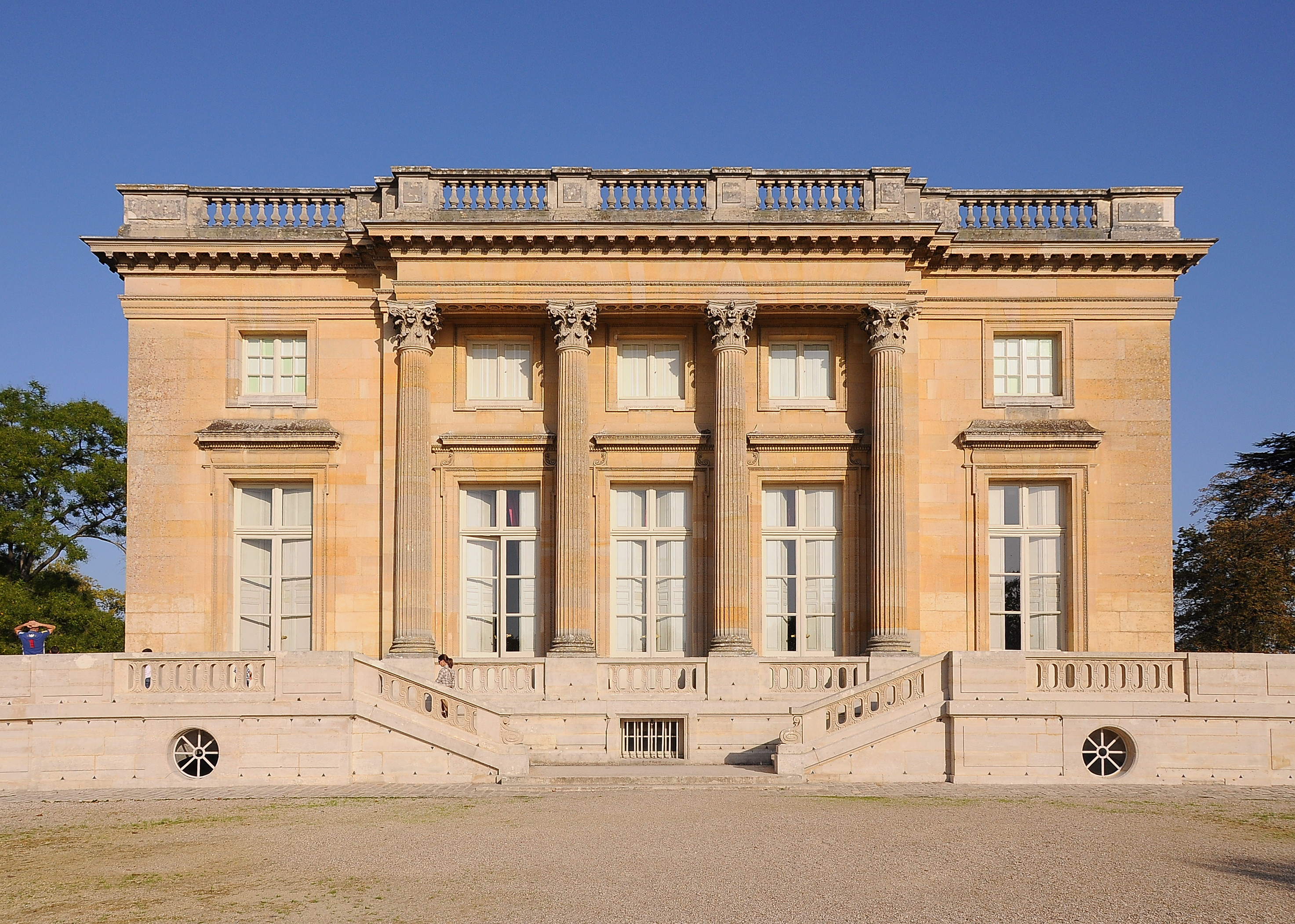 West facade of Petit Trianon at Château de Versailles in Versailles, department of Yvelines in France.